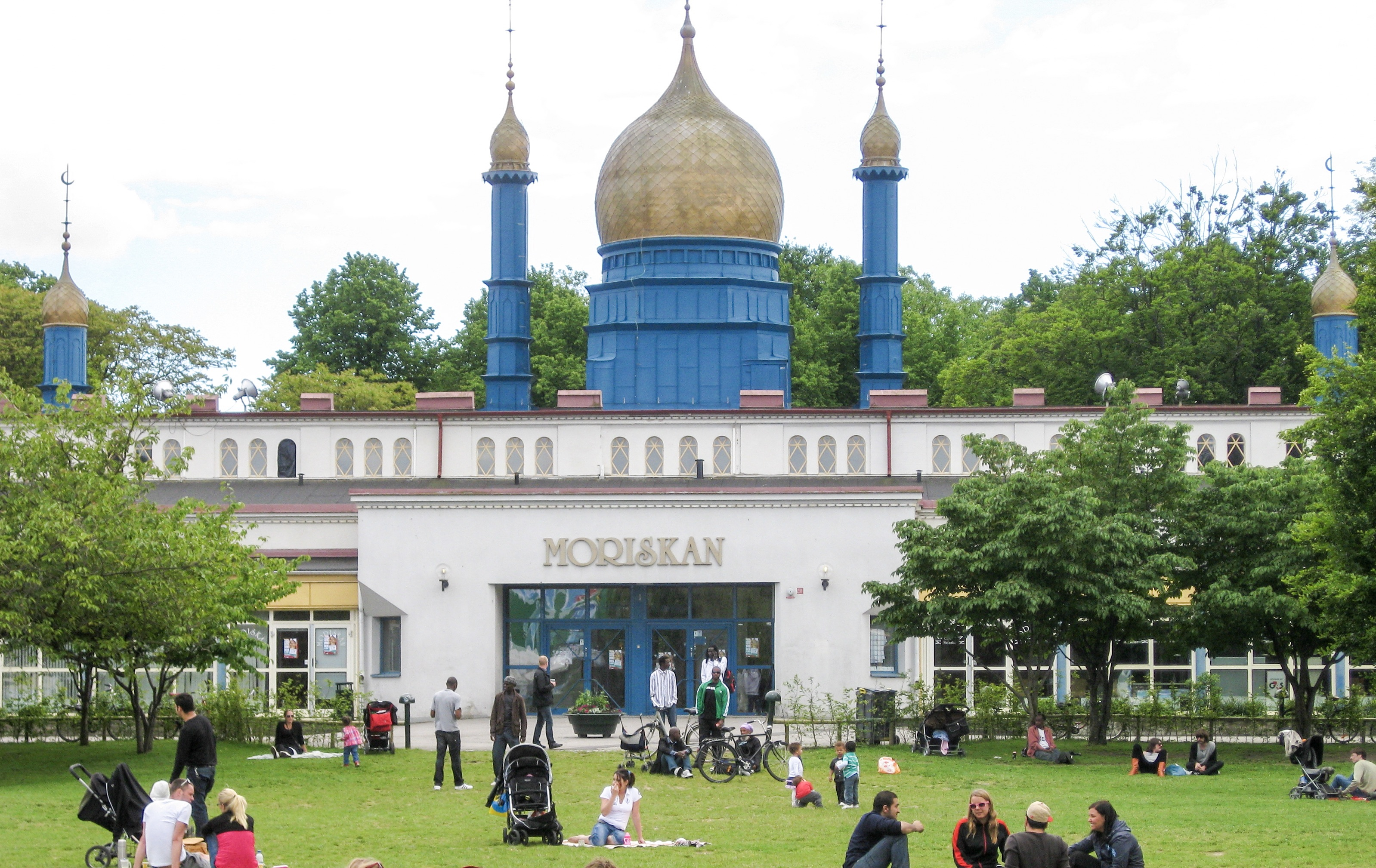 Moriskan, restaurant in Folkets Park, Malmö, Sweden